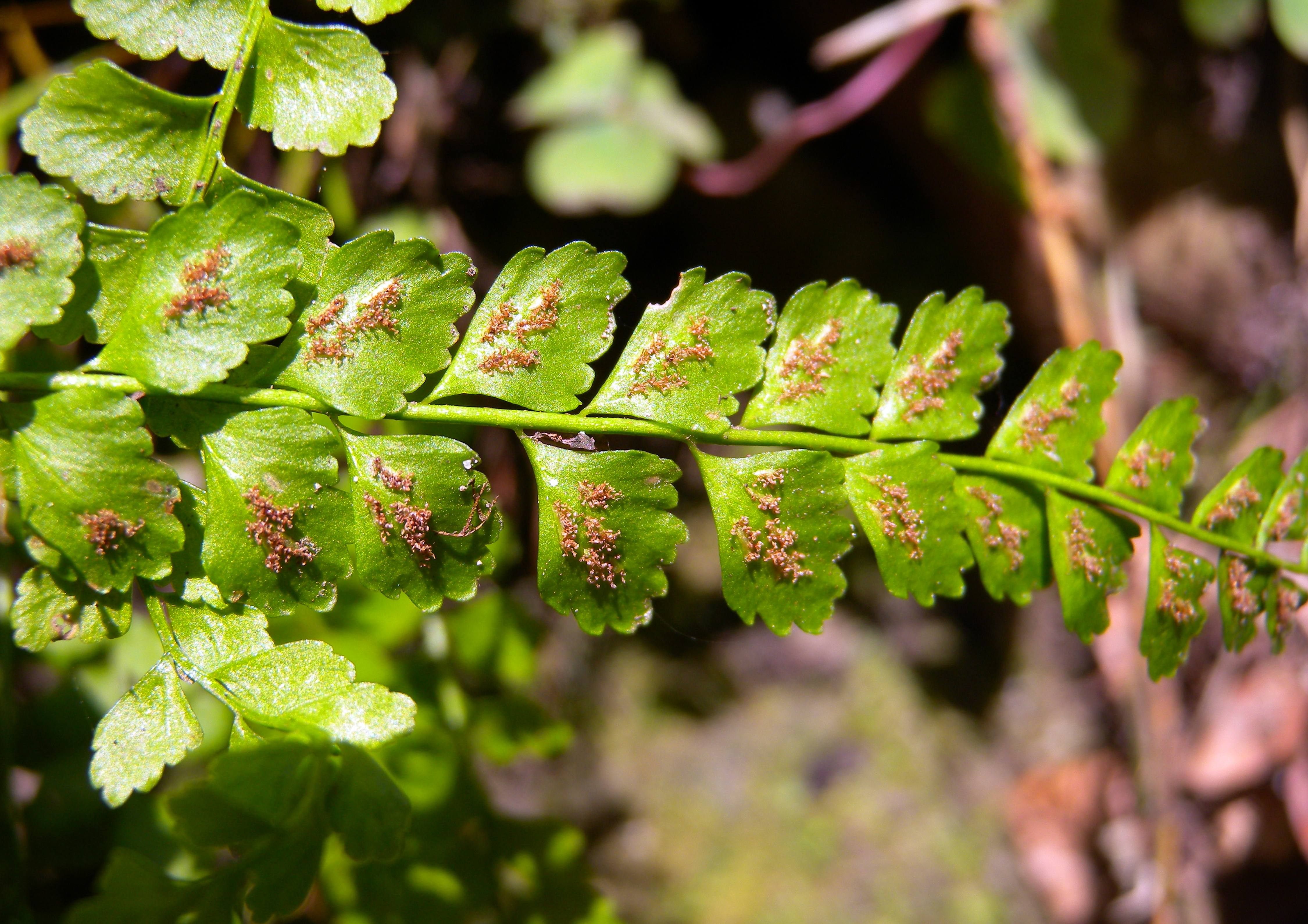 Sori of Asplenium viride (Aspleniaceae); Zirkelsgraben near Schmitten, Canton of Fribourg, Switzerland